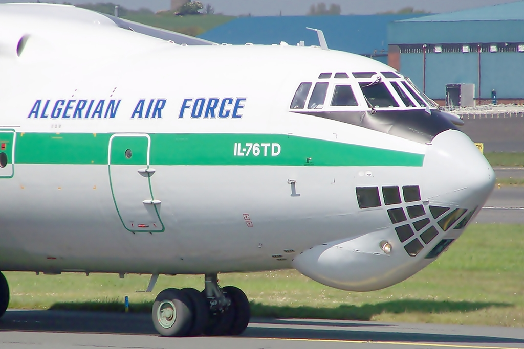 7T-WIU IL-76TD Algerian Air Force close up of the nose section as it taxis past the mound at Prestwick